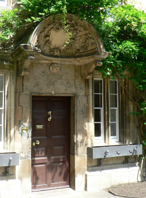 Front door of the Pricipal's Lodgings at Jesus College, Oxford.